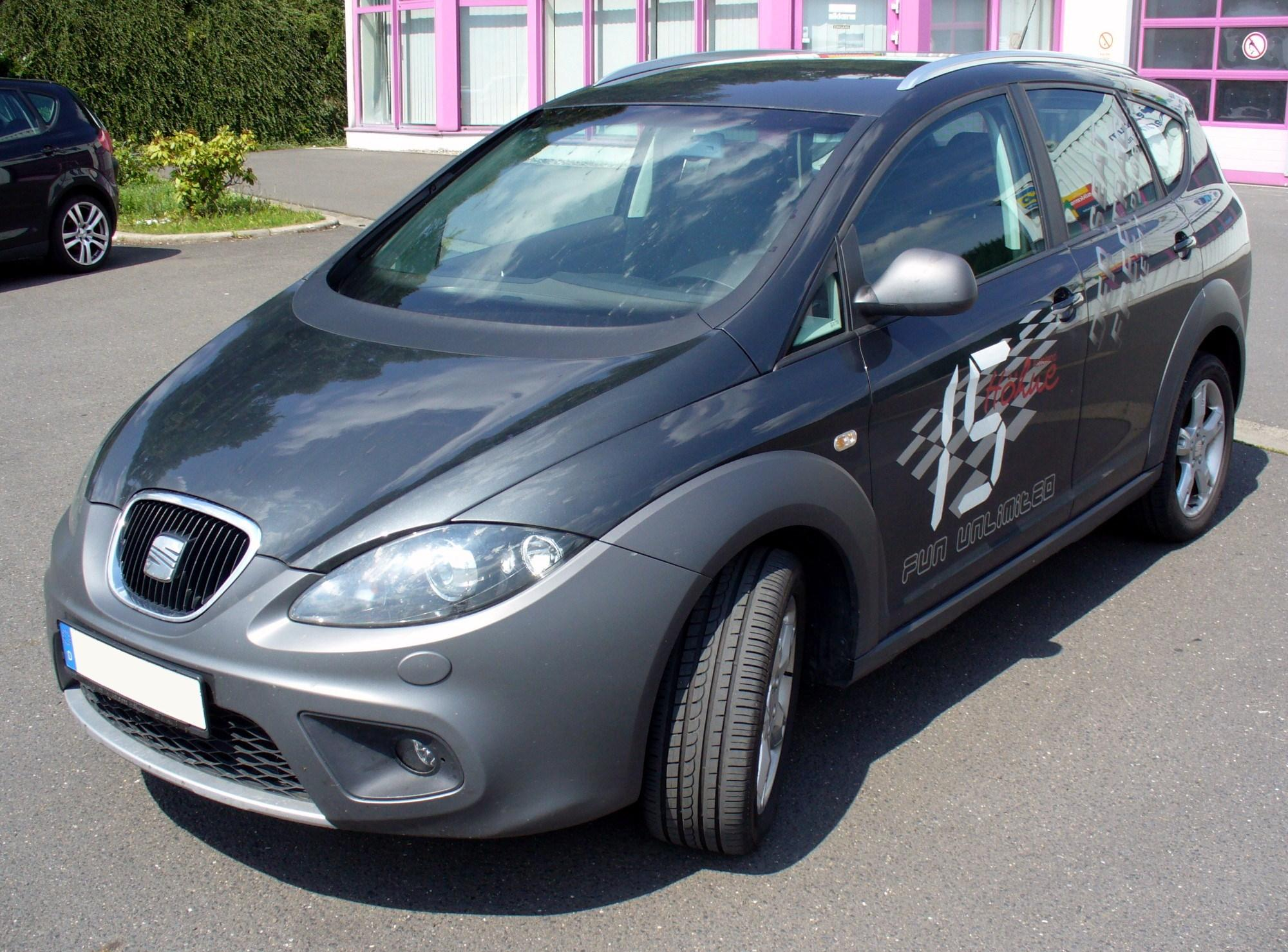 Seat Altea Freetrack